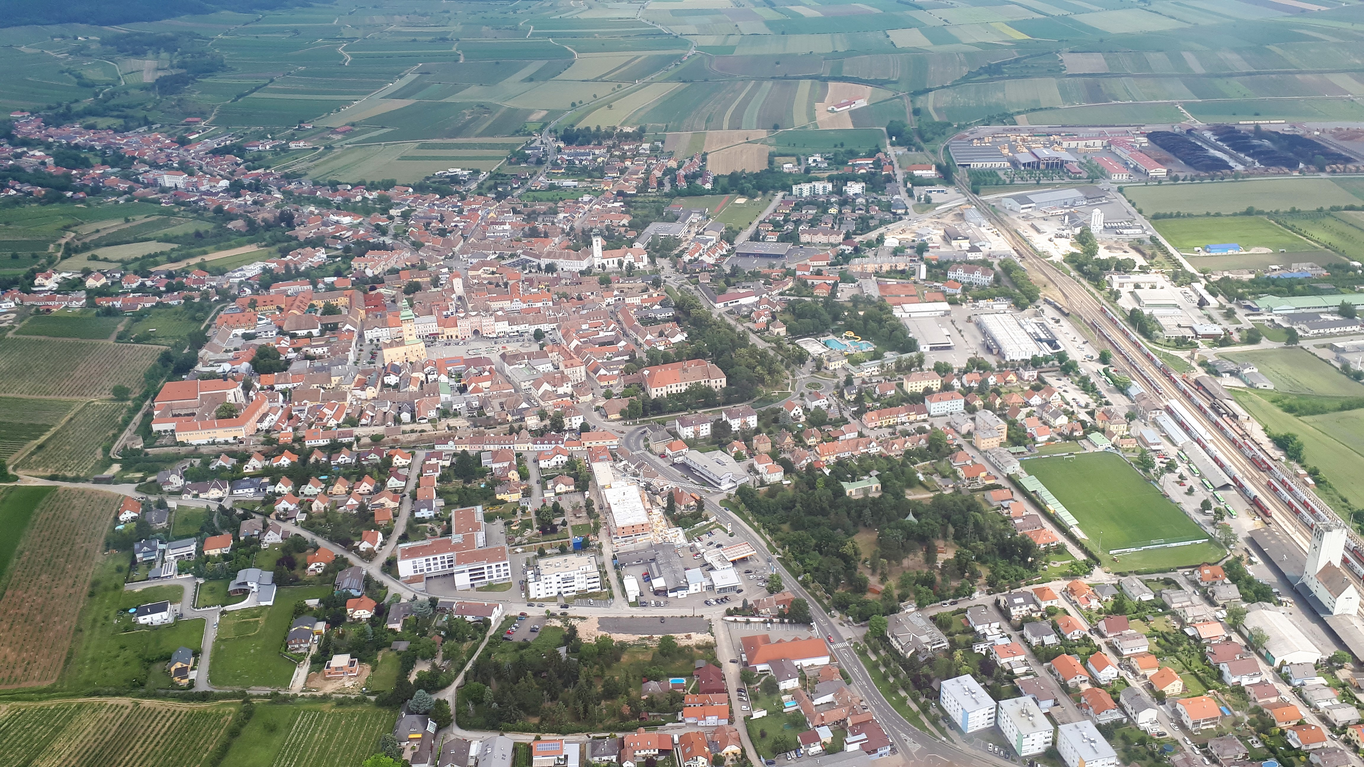 City of Retz, Aerial view from south